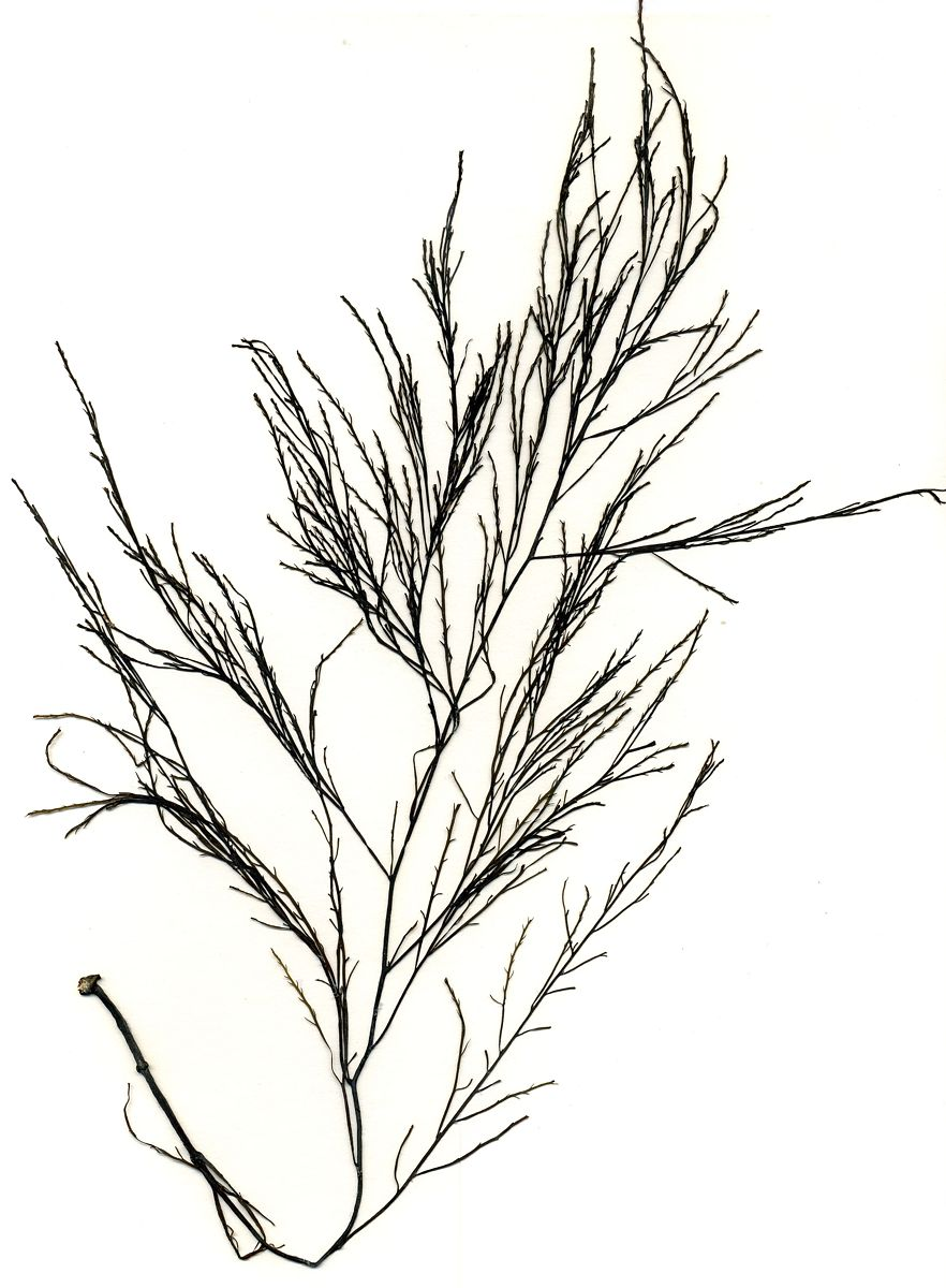 Desmarestia aculeata (L.) Lamour., herbarium sheet. Collected 1985-09-10, Heligoland (Germany)